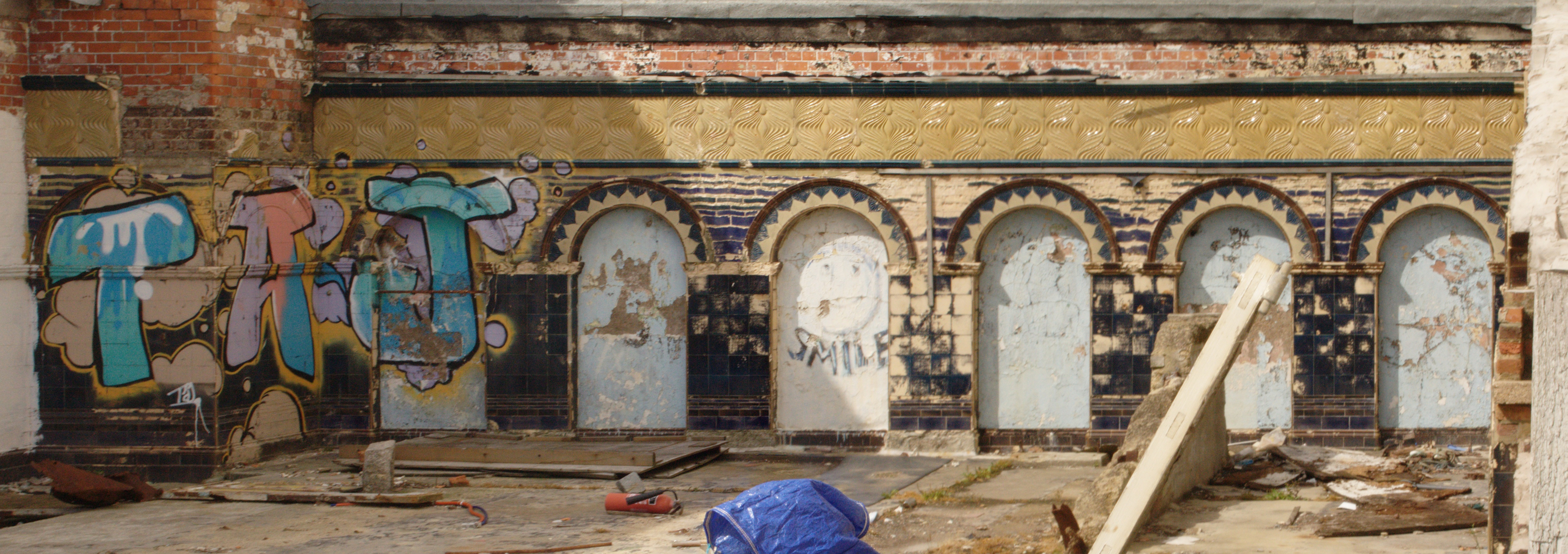 Part of the site of Medina House Turkish Baths, Hove, England.